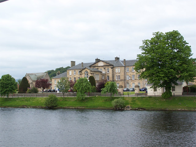 Royal Northern Infirmary building Now the Executive Office of UHI Millennium Institute